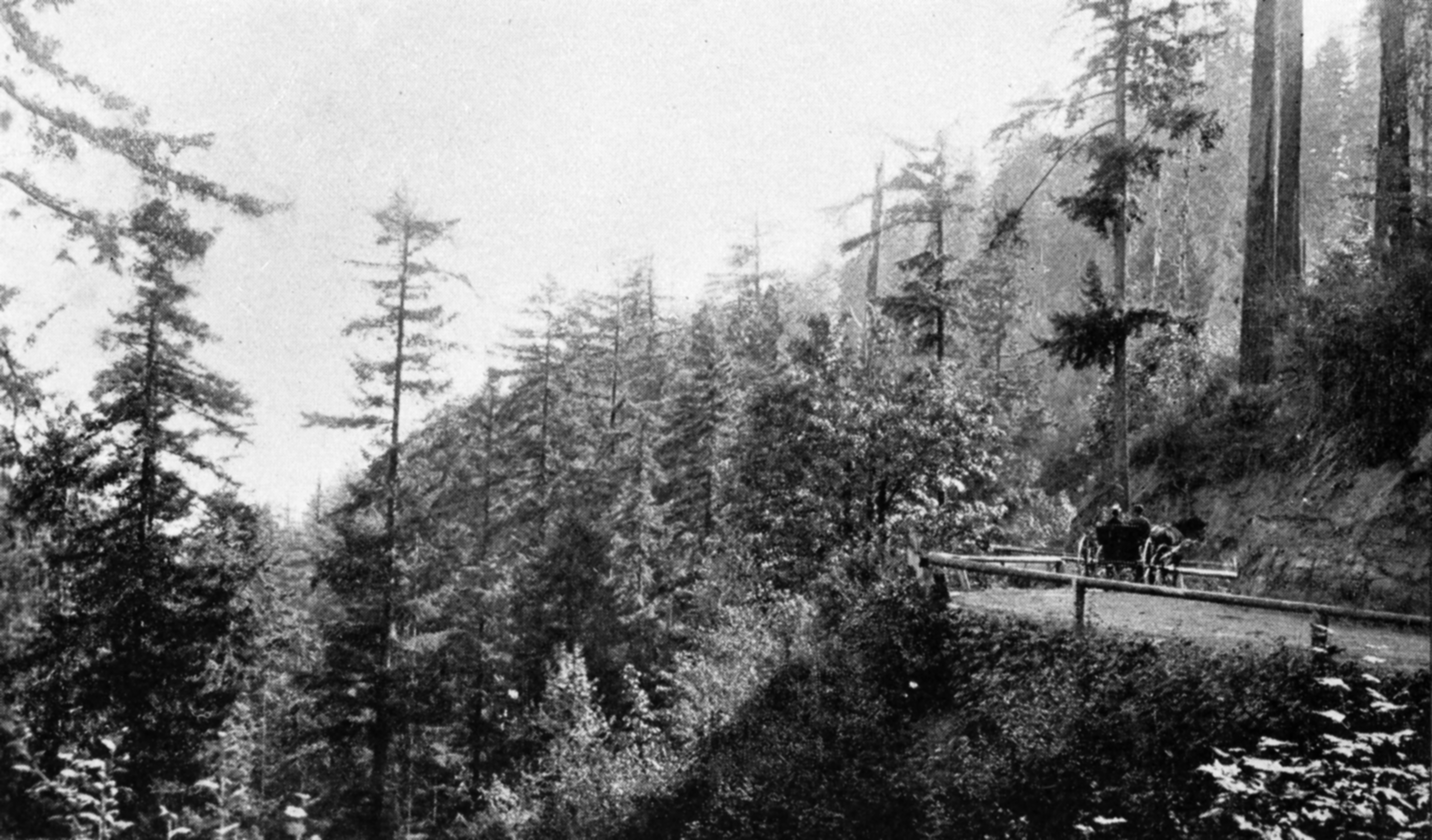 p. 115 from scans